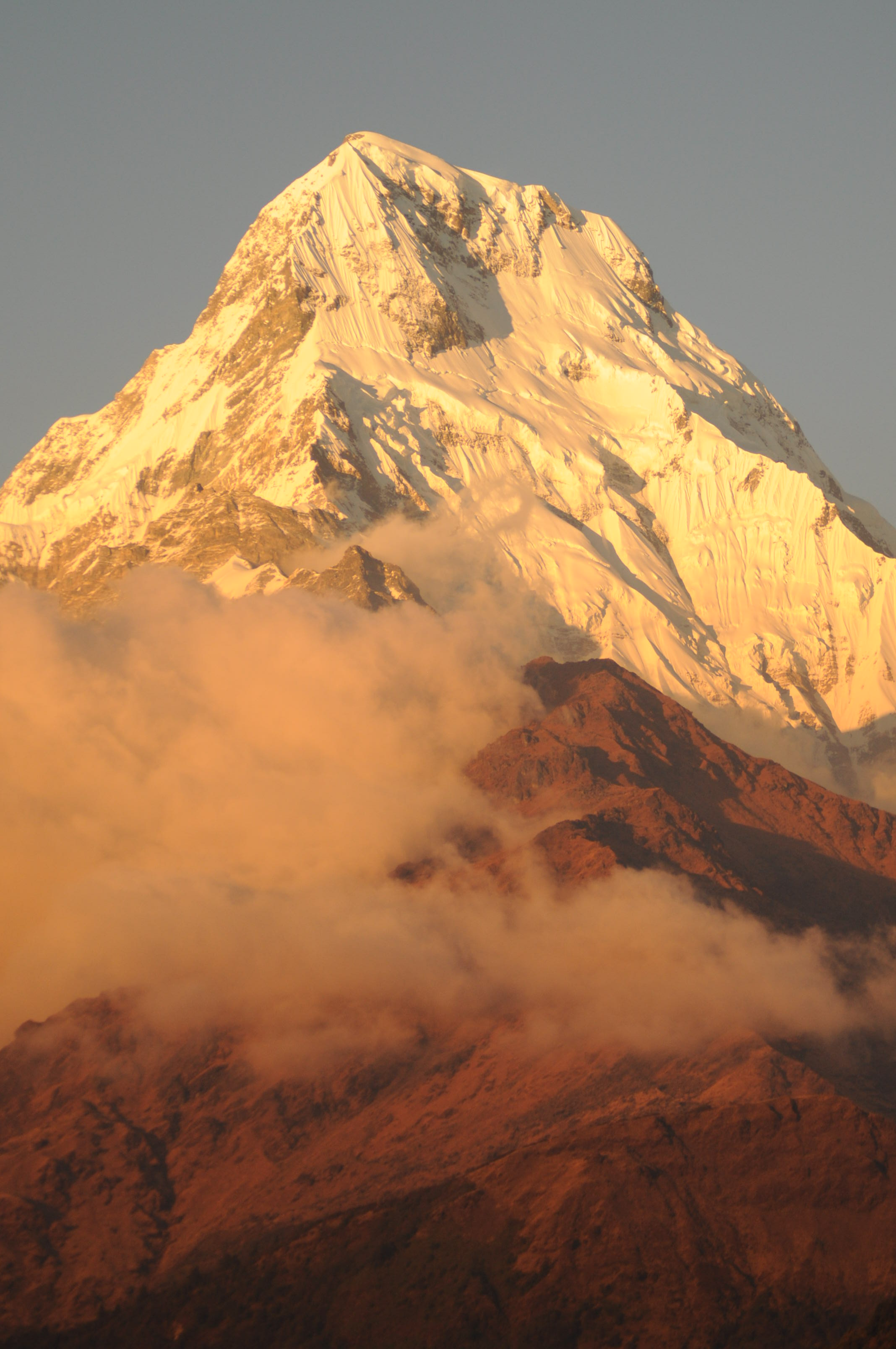 A view of Mt Annapurna I from Ghandruk